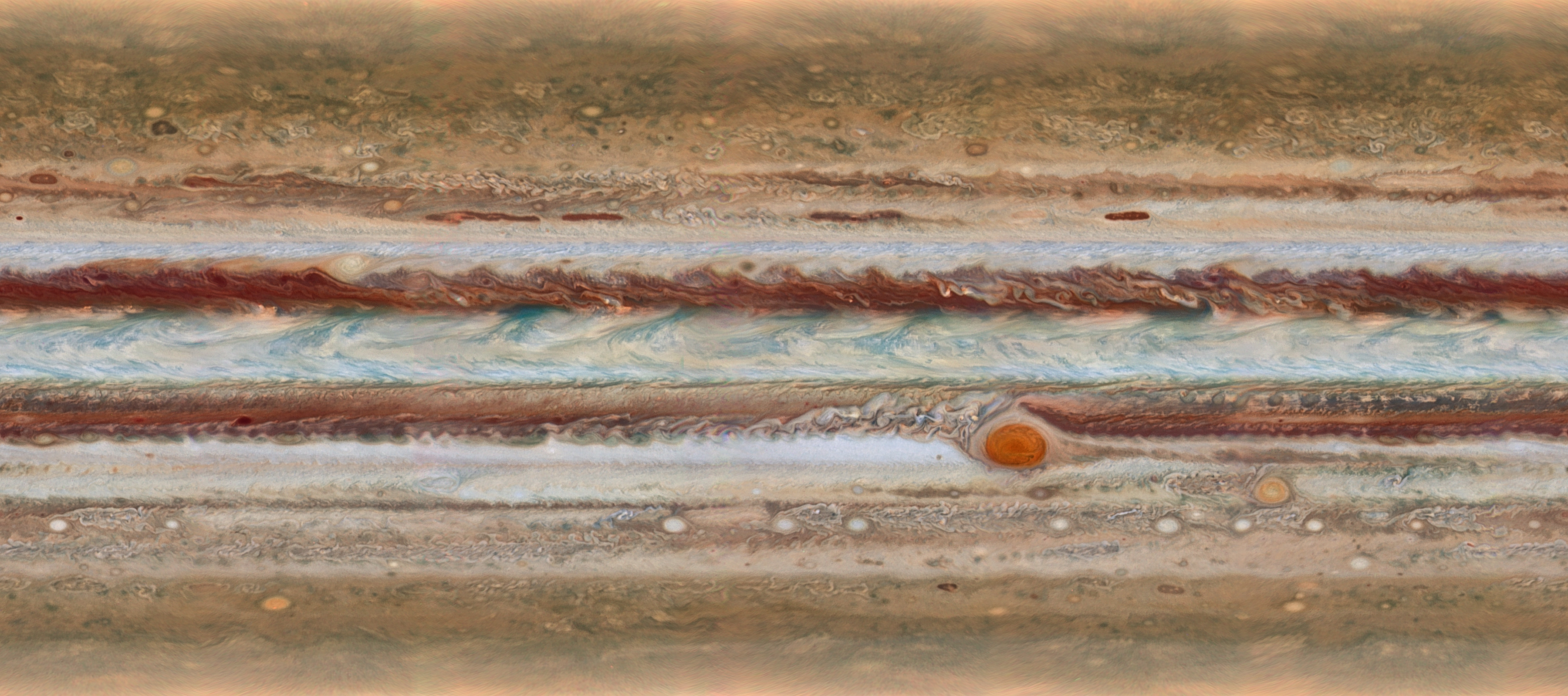 This new image from the largest planet in the Solar System, Jupiter, was made during the Outer Planet Atmospheres Legacy (OPAL) programme. The images from this programme make it possible to determine the speeds of Jupiter’s winds, to identify different phenomena in its atmosphere and to track changes in its most famous features. The map shown was observed on 19 January 2015, from 2:00 UT to 12:30 UT.